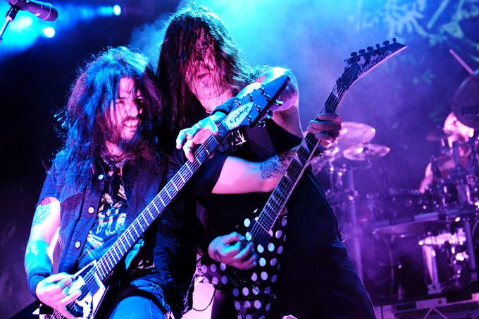 Robb Flynn and Phil Demmel performing with Machine Head in 2012.